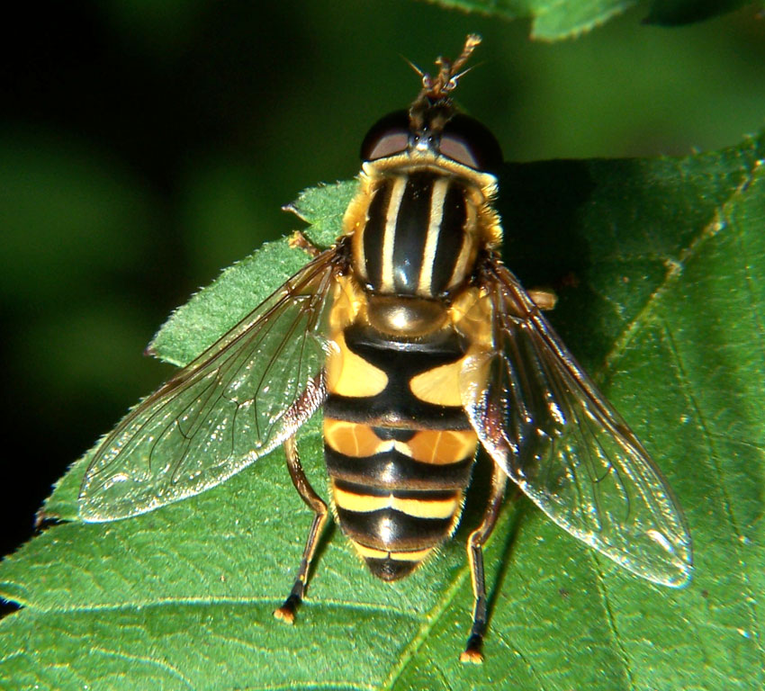 jpeg image: Female fly in the Diptera family Syrphidae, genus Helophilus (Greek for "sun lover")